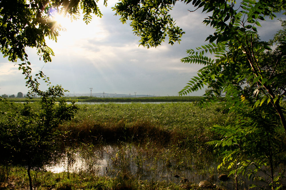 Protected place "Poda"